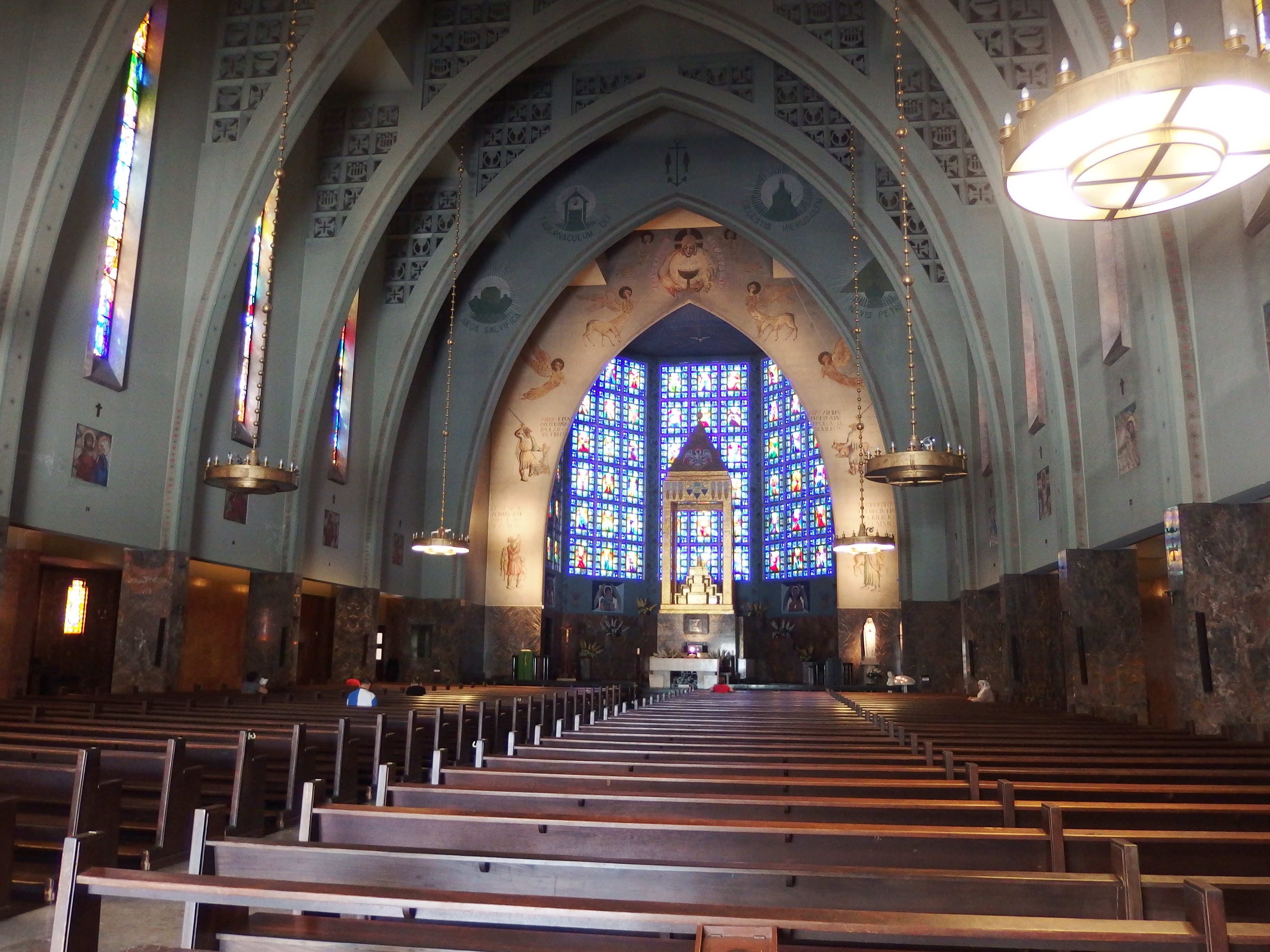 Lisbon, Portugal.